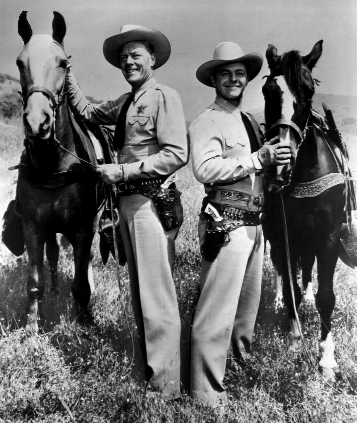 Photo of Willard Parker (left) as Jace Pearson and Harry Lauter as Clay Morgan from the television program Tales of the Texas Rangers.